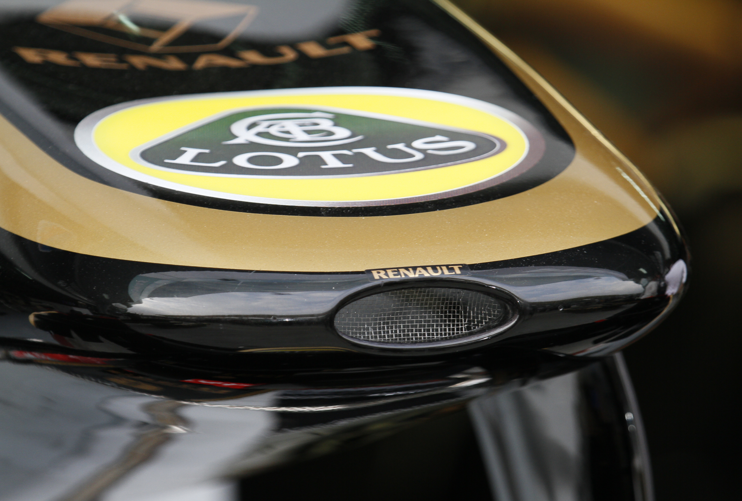 Formula One 2011 Rd.2 Malaysian GP: Renault R31's nose emblem